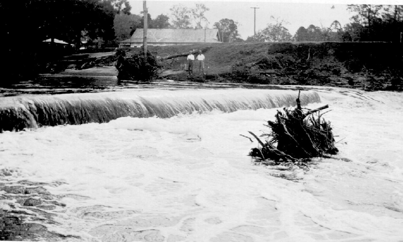 The weir, just downstream from the Gresham St, St Johns Wood bridge in floodtime. The "Ambassador" roof is visible.